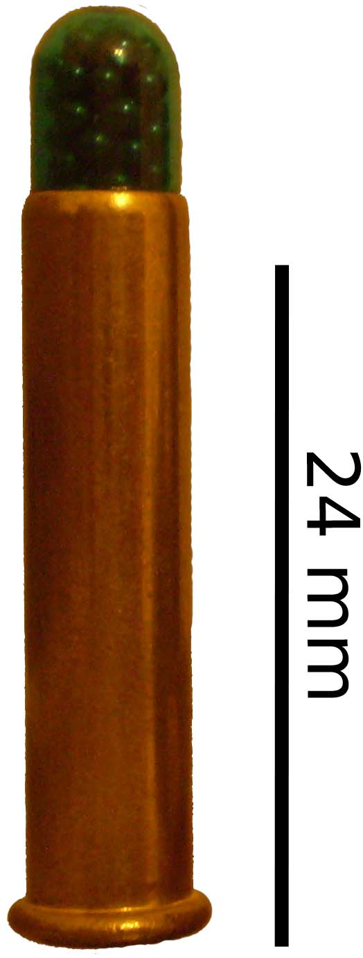 I took this picture myself. Edited by Dvyjones